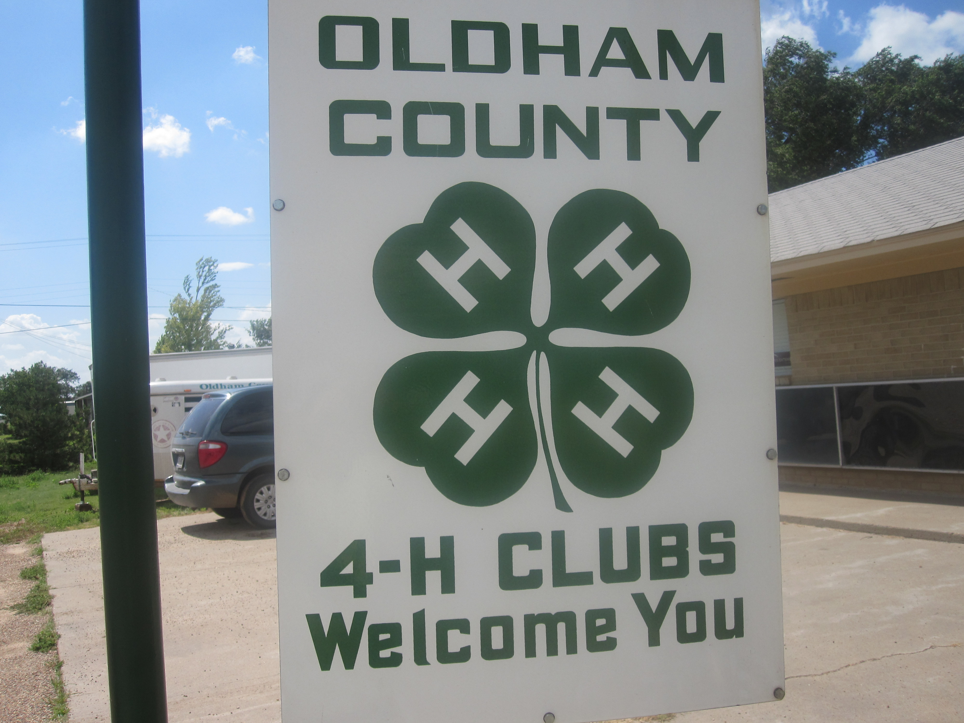 I took photo with Canon camera in Vega, TX.